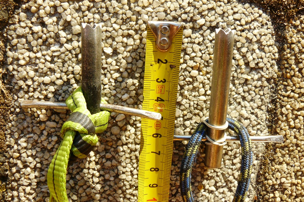 sandstone "hand borer" used during 1st ascent